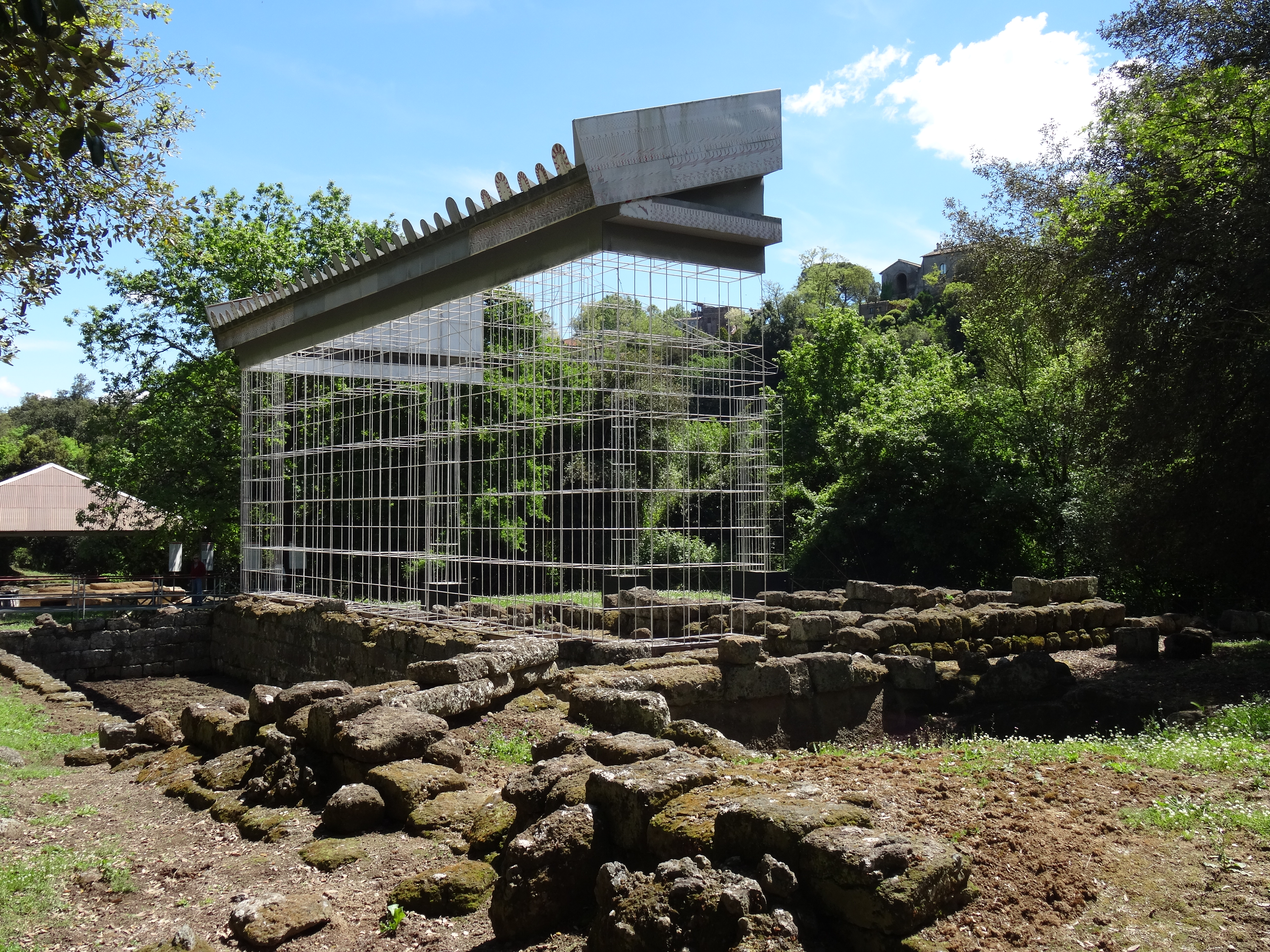 Tempio di veio